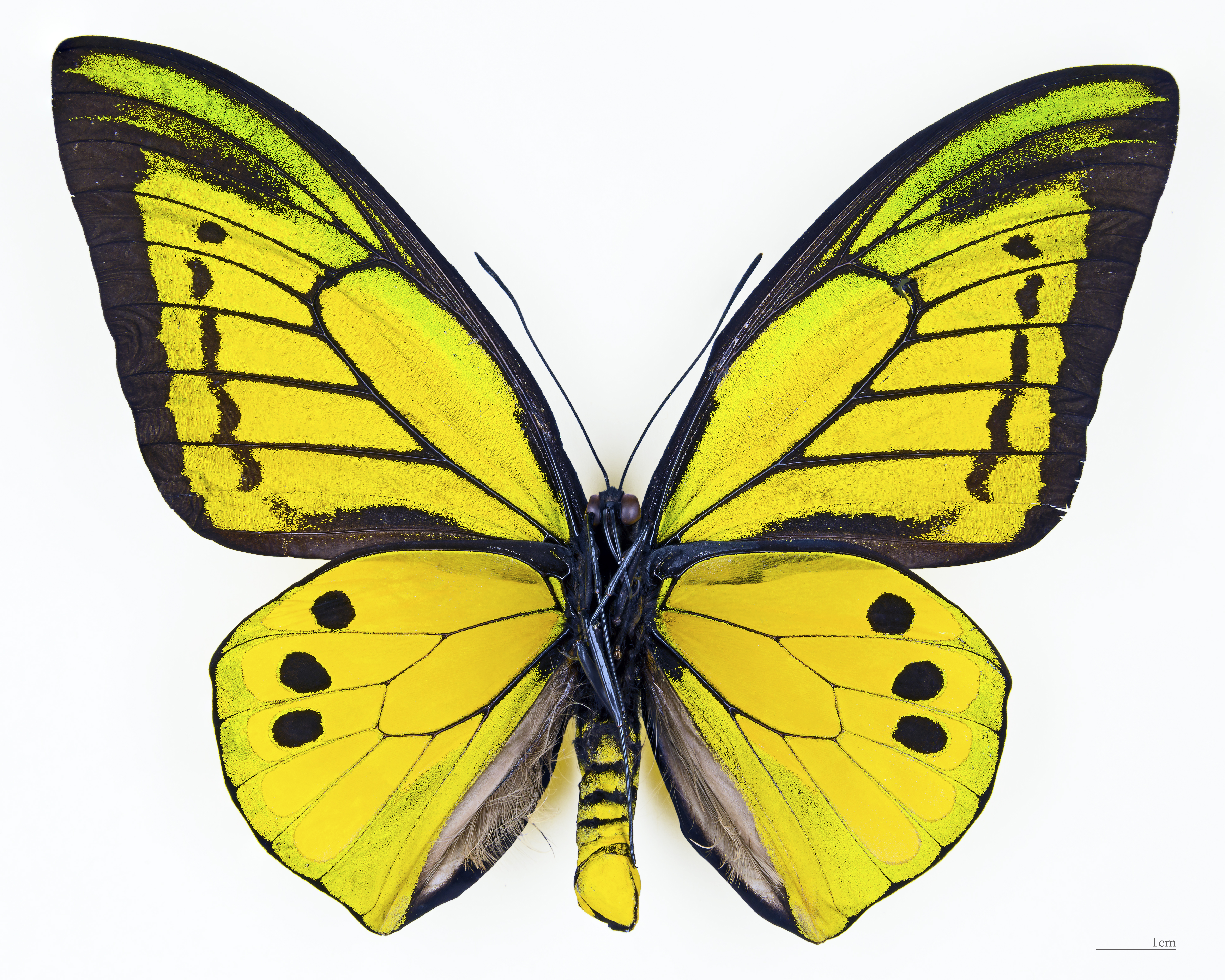 Ornithoptera goliath supremus♂ - △ Ventral side Gumi Village, Lower Watut, Morobe Province, Papua New Guinea